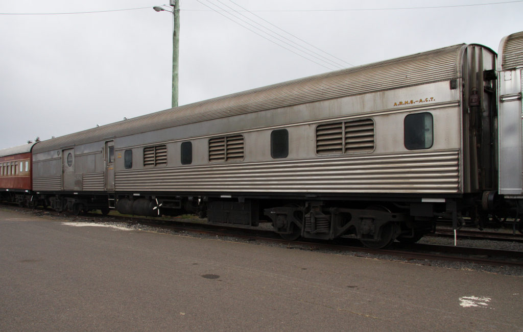 Power and brake van PHN 2381, VR & NSWGR joint stock for use on the Southern Aurora, now preserved by the Australian Railway Historical Society ACT division